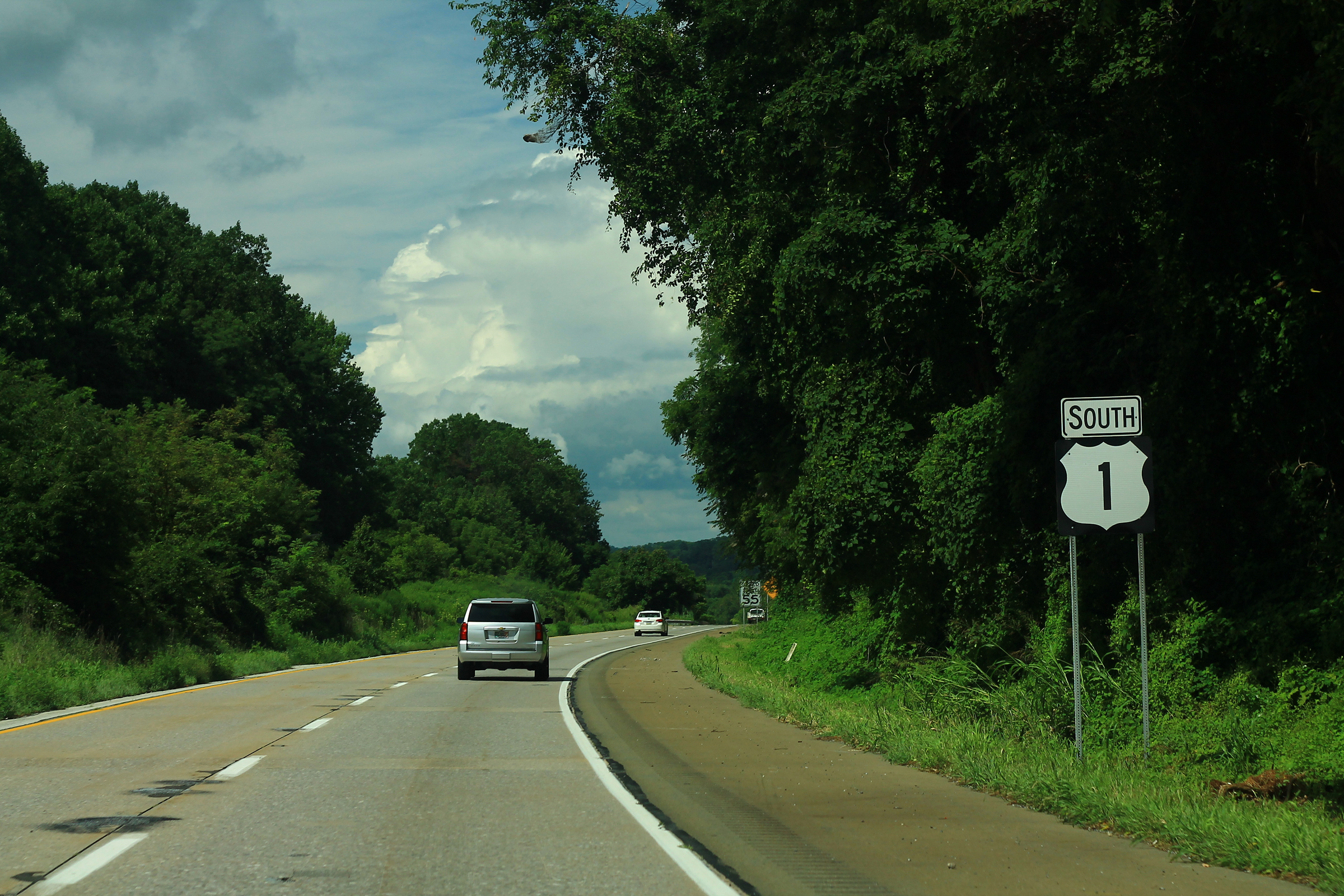 US1 South Sign - Southeast Pennsylvania